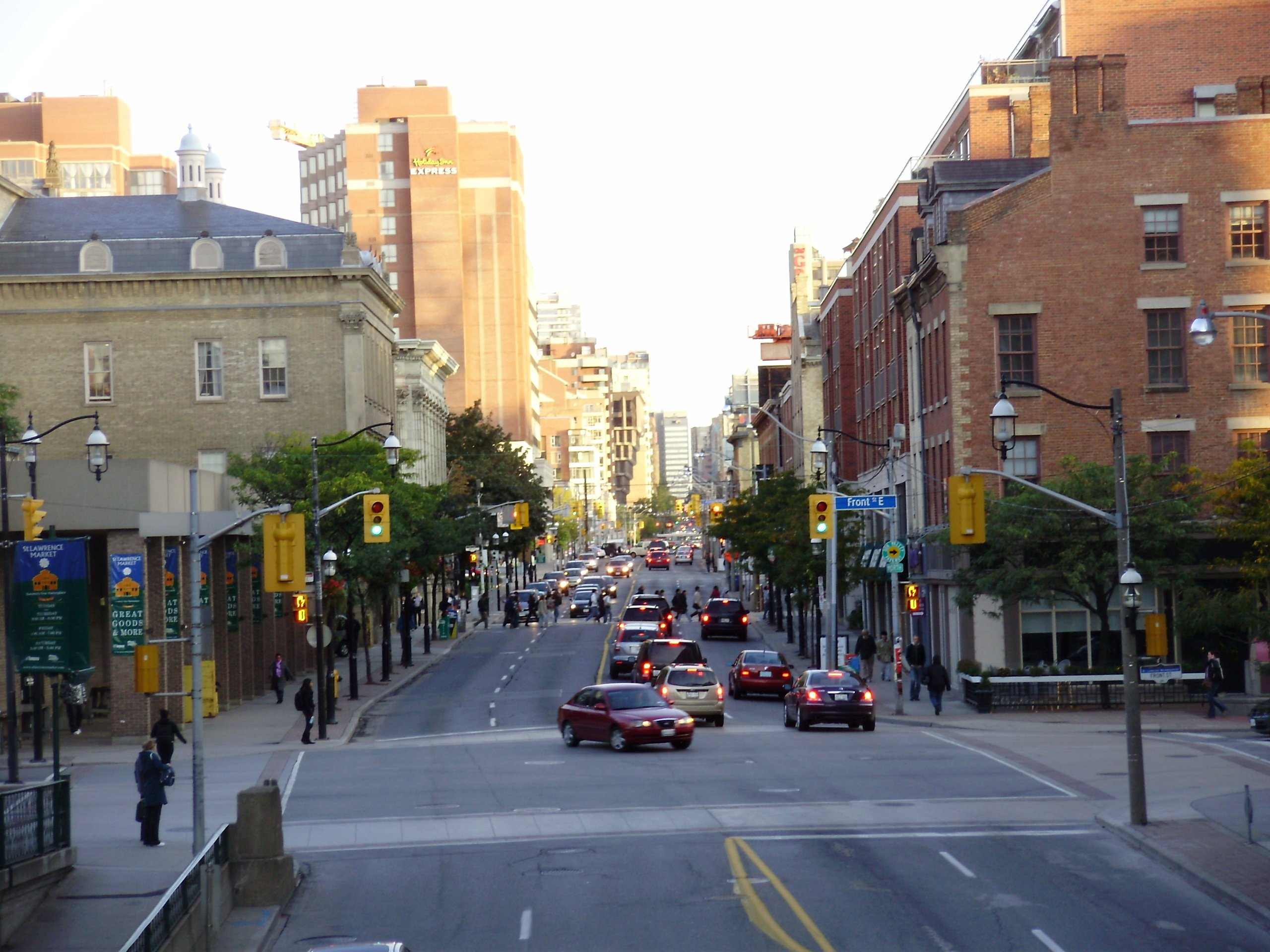 Looking north up Jarvis Street during the morning rush hour. Photographed from a pedestrian bridge spanning Lower Jarvis Street, just south of its intersection with Front Street, in Toronto, Ontario, Canada.